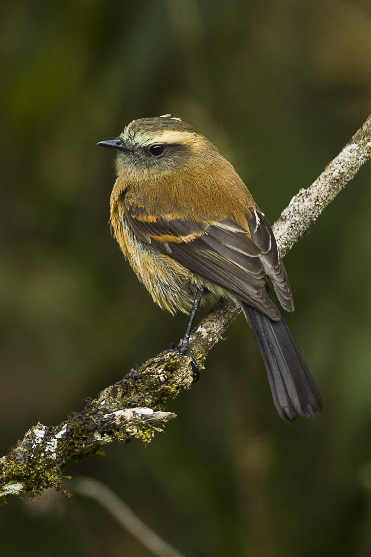 Brown-backed Chat-Tyrant - Colombia_S4E1525